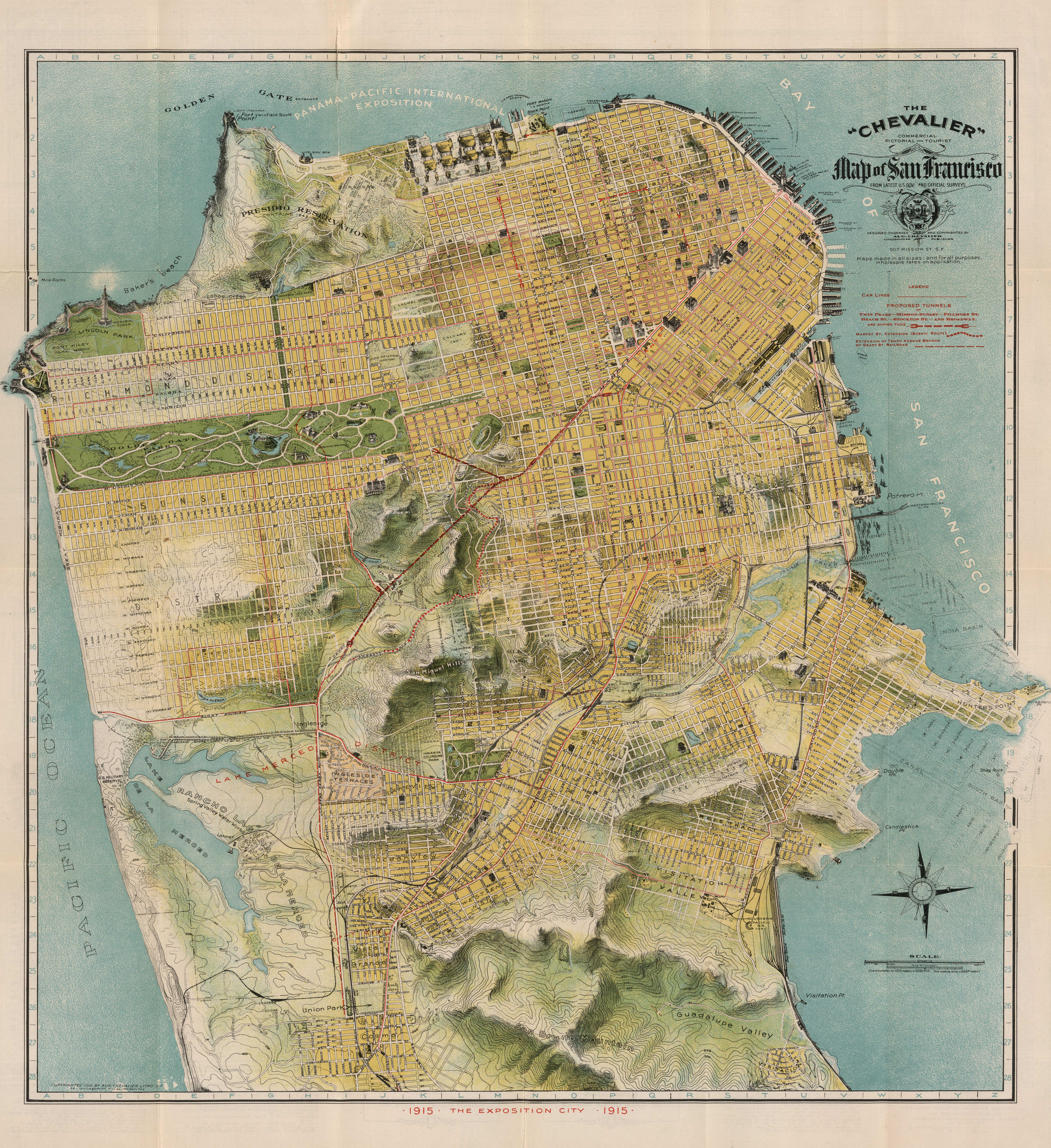 San Francisco 1915